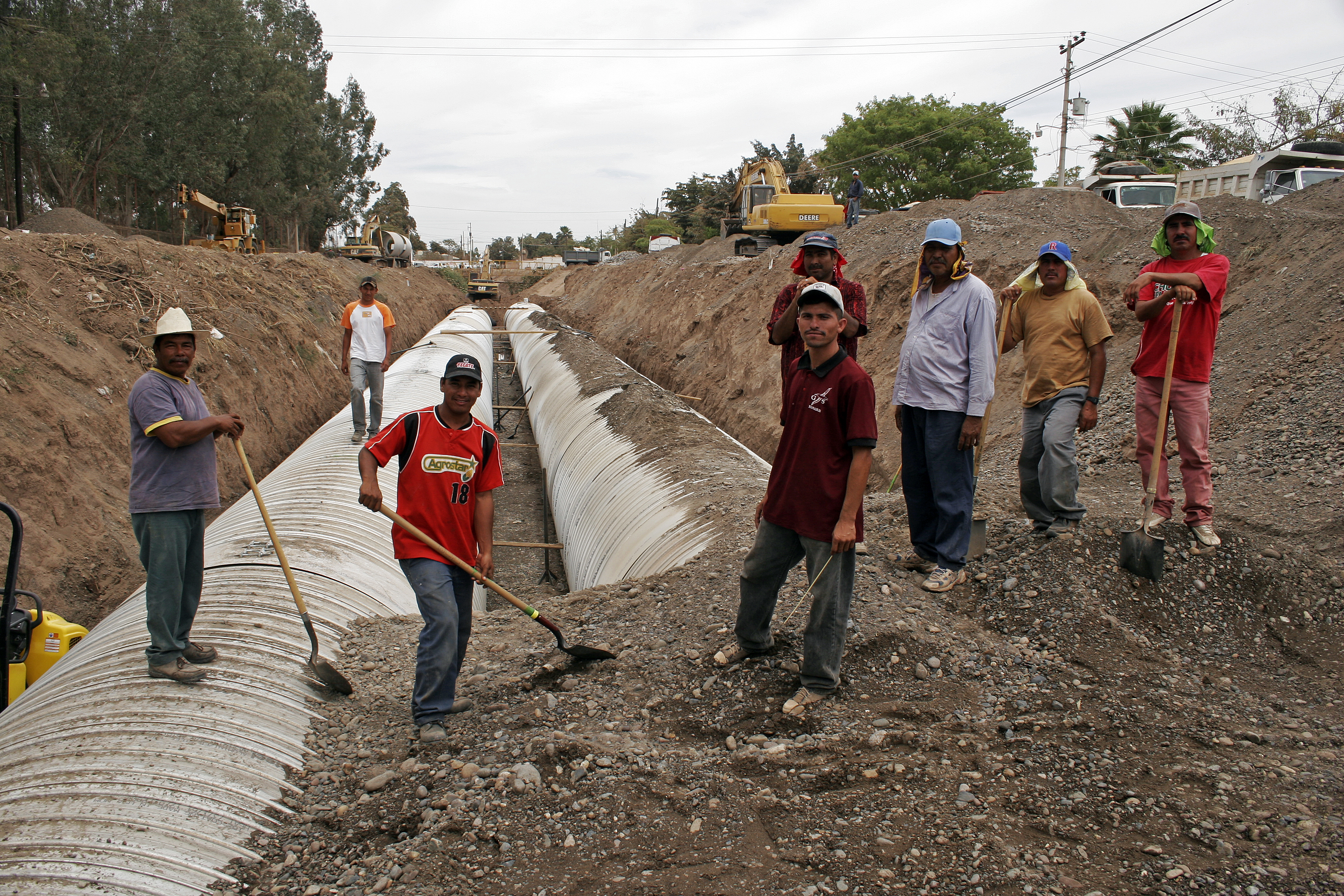 Mexican construction workers, Guasave, Sinaloa.